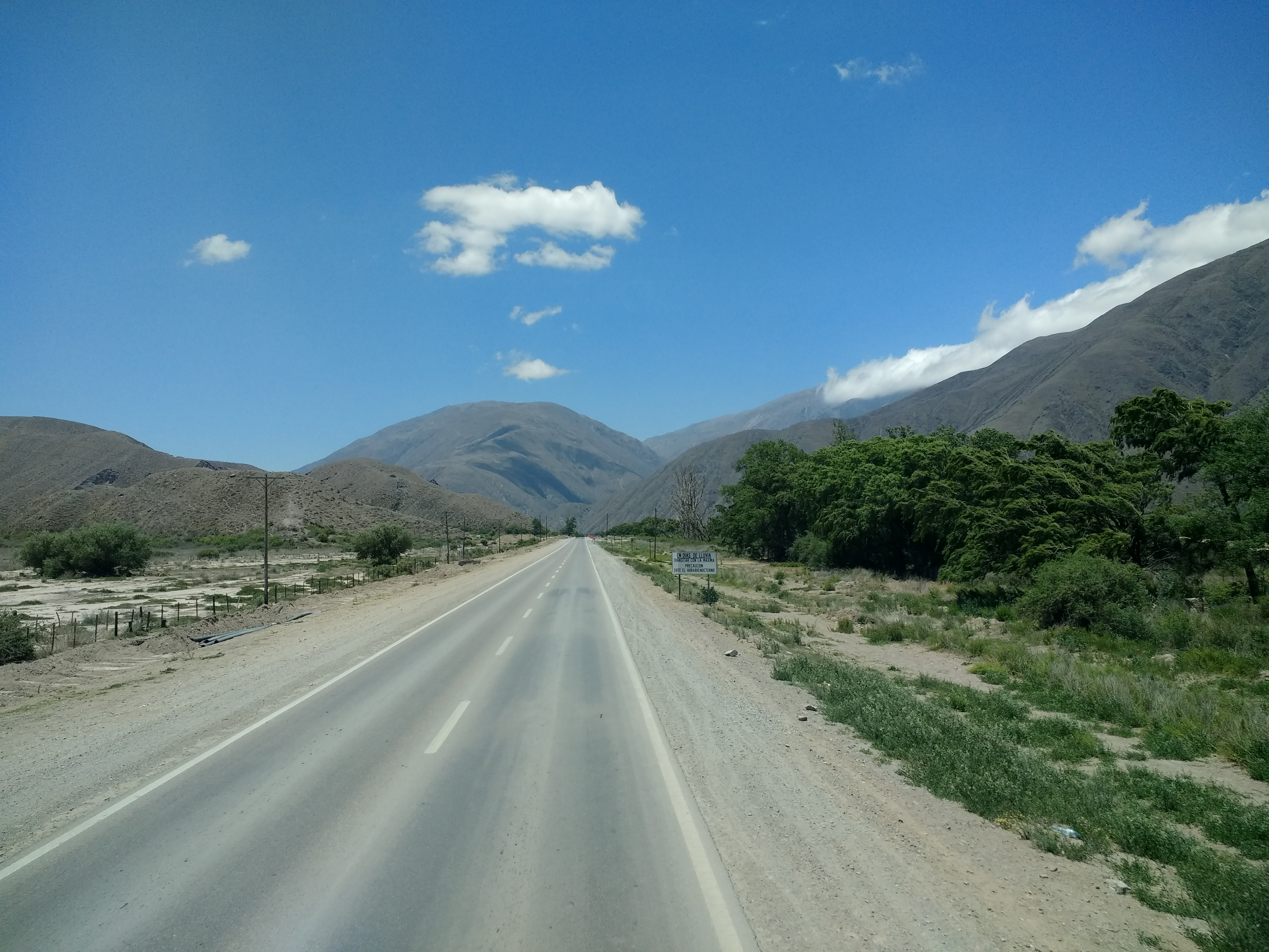 Route 9 in Jujuy Province.